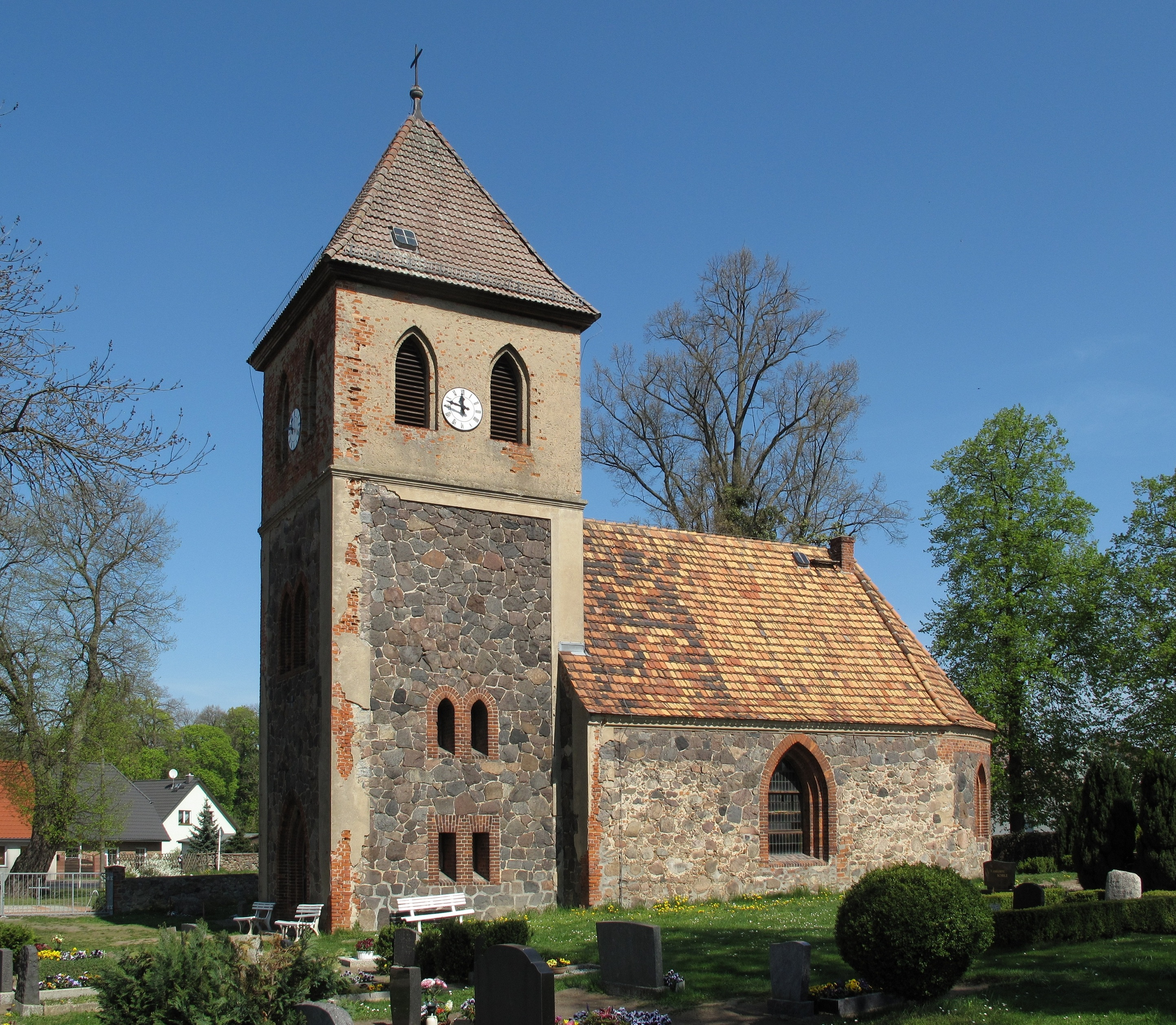 Listed village and Fieldstone church in Bollersdorf, a village of the municipality Oberbarnim in the District Märkisch-Oderland, Brandenburg, Germany.